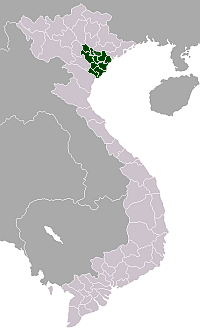 Locator map of the Red River Delta Region — in northern Vietnam.